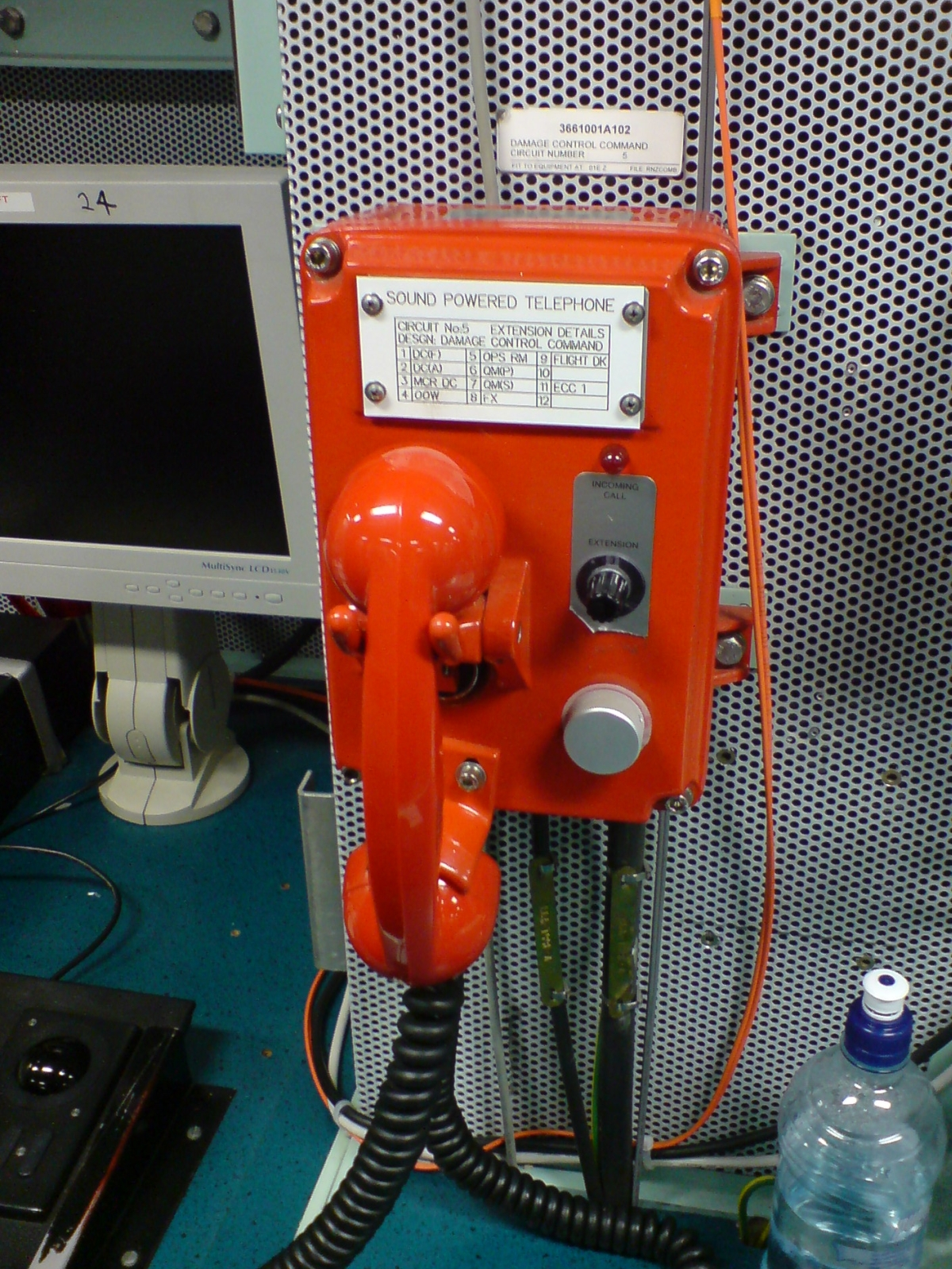 A sound-powered telephone on the HMNZS Te Kaha, used to communicate between the most important command posts of the ship in an emergency. This post is the damage control command.